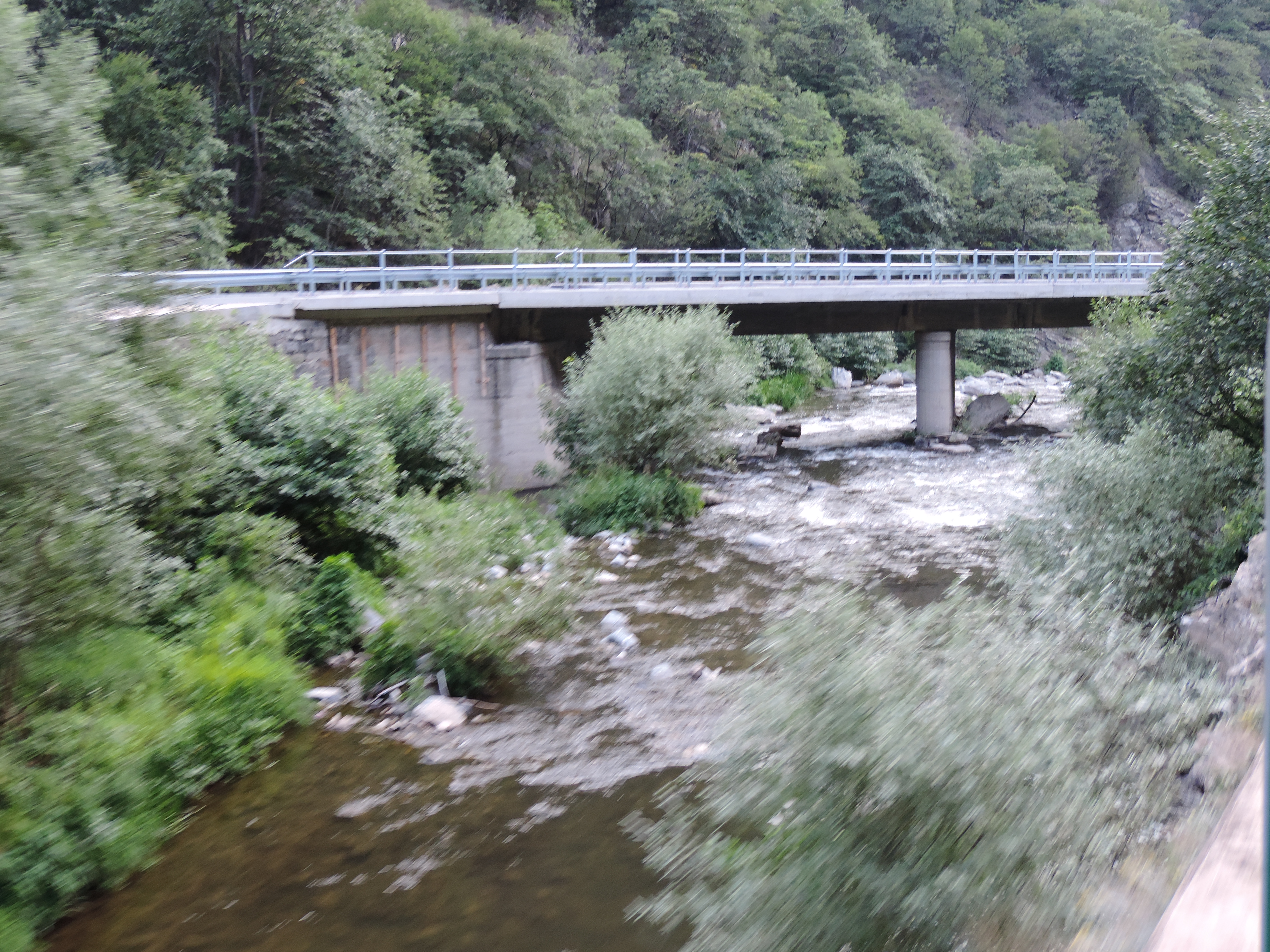 Road 84, Bulgaria